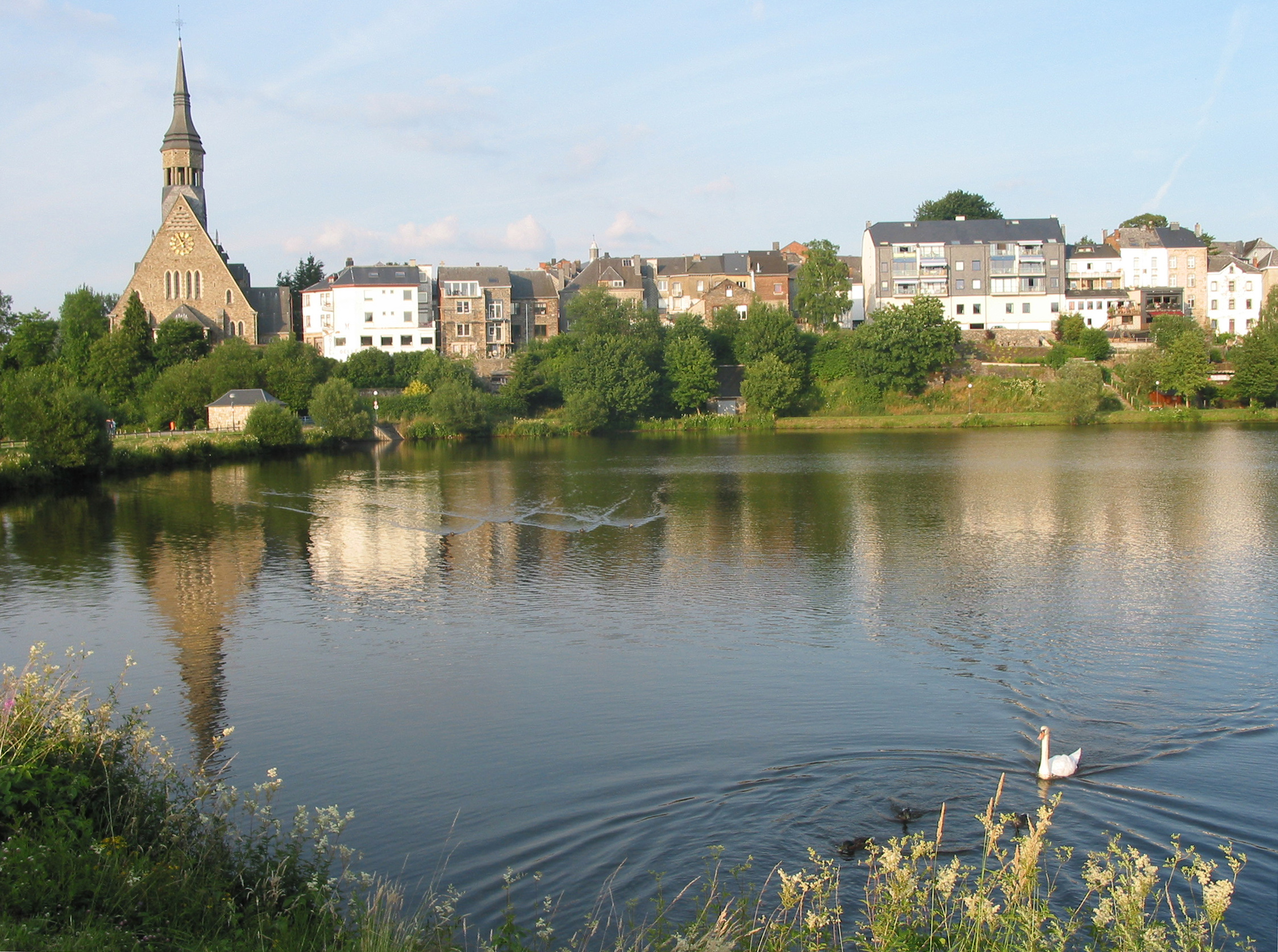 Vielsalm (Belgium), image of the city in her lake.